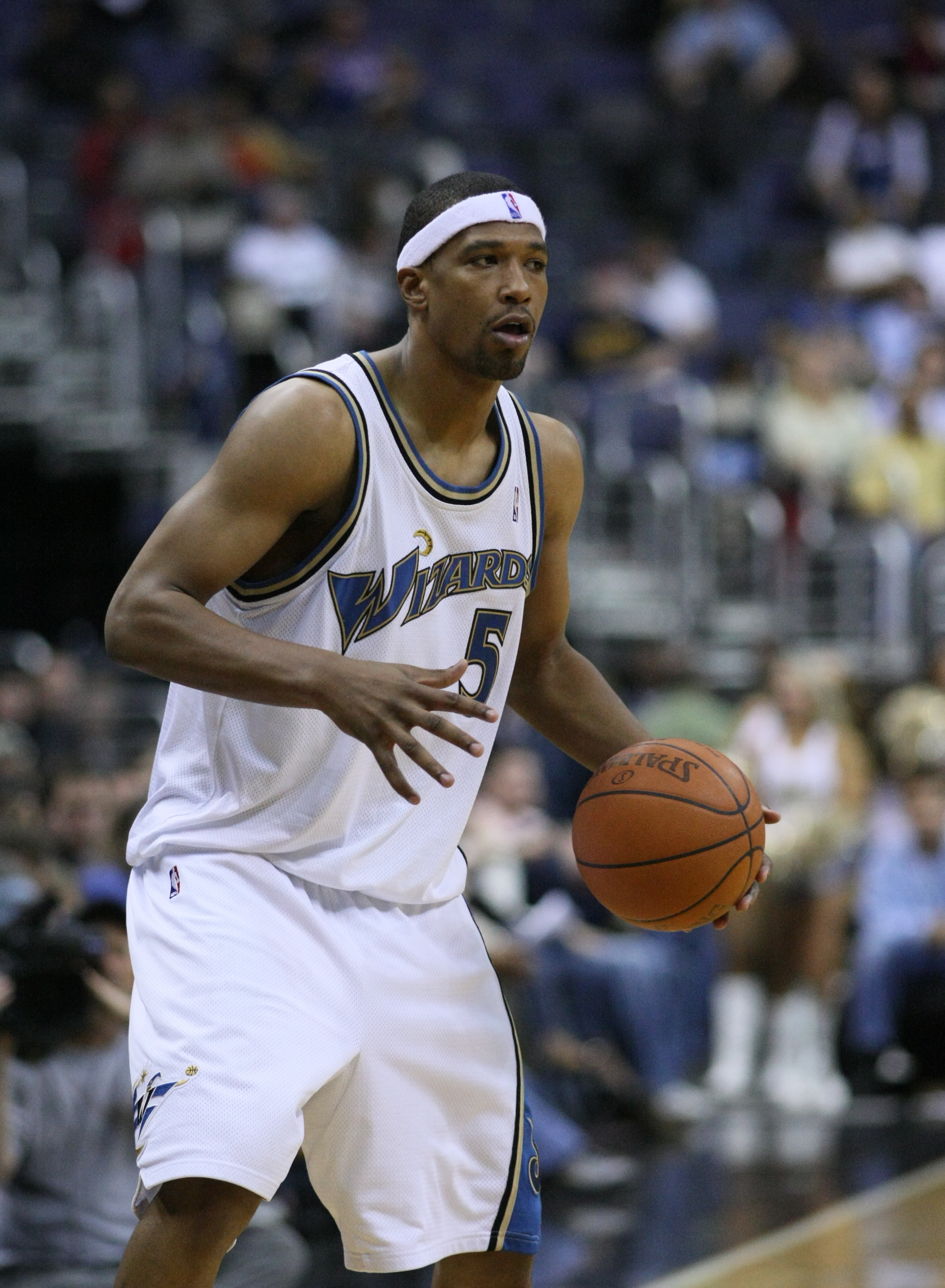 Dominic McGuire at the Washington Wizards v/s Orlando Magic game on 11/27/08